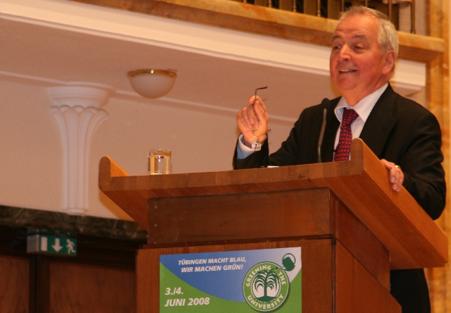 Klaus Töpfer, former federal minister for the environment in Germany and former director of Unites Nations environmental program UNEP. Picture by Christoph Streckhardt, supplied to me by himself under the CC-BY-SA-2.0 license.